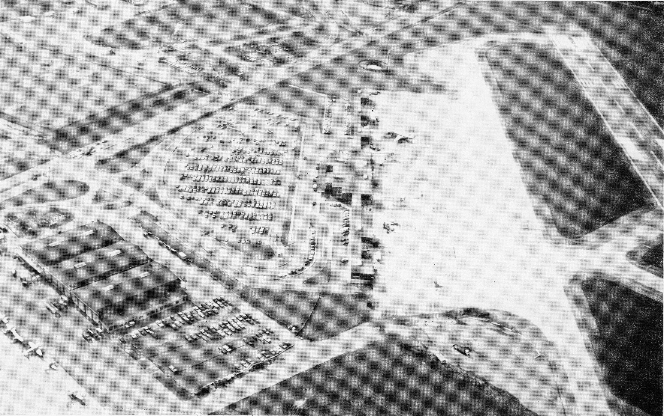 Photo from NFTA annual report. Original caption: "Greater Buffalo International Airport - West Terminal."